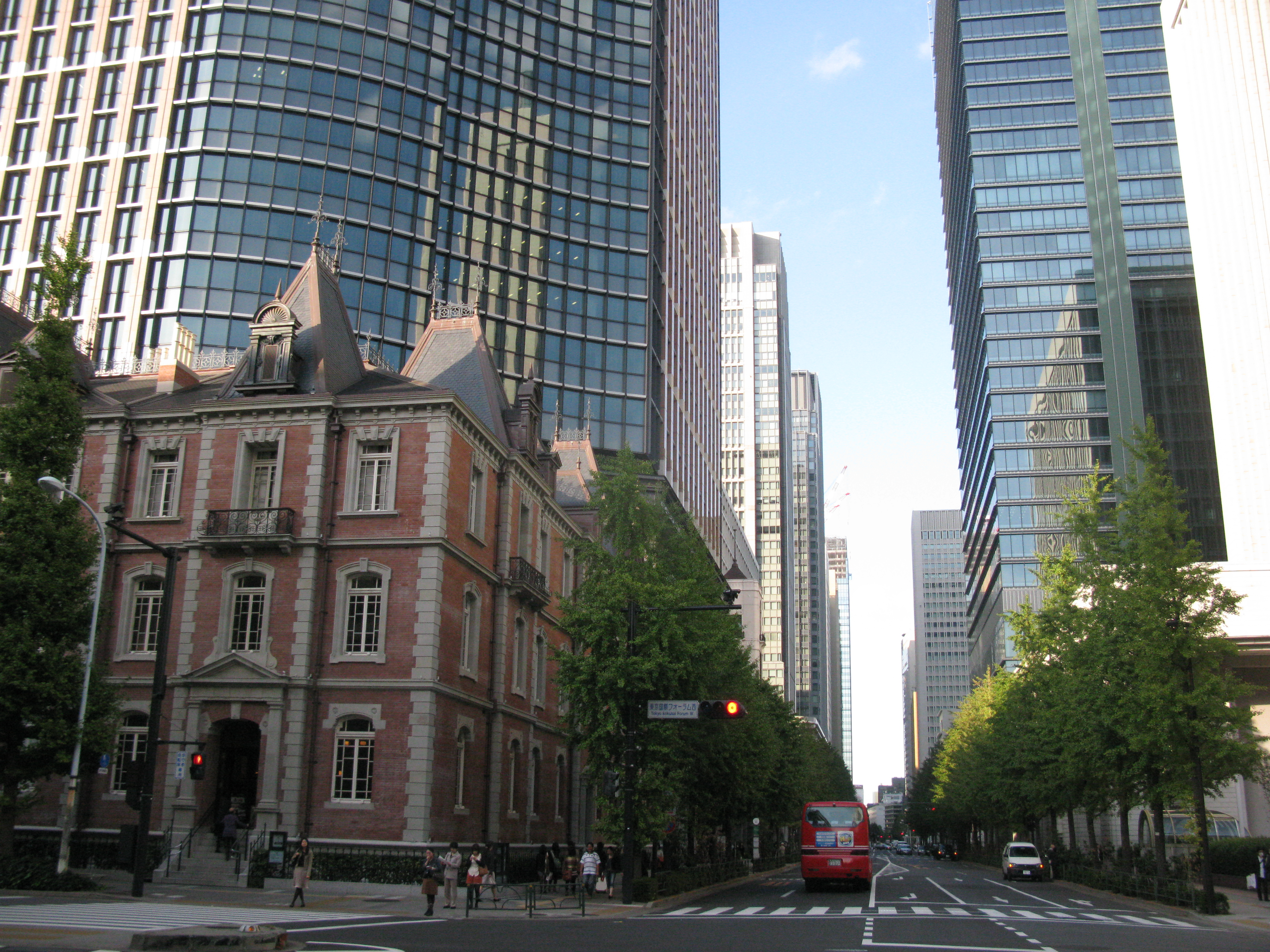 Tokyo prefectural road route-402,near Mitsubishi Ichigokan Museum.